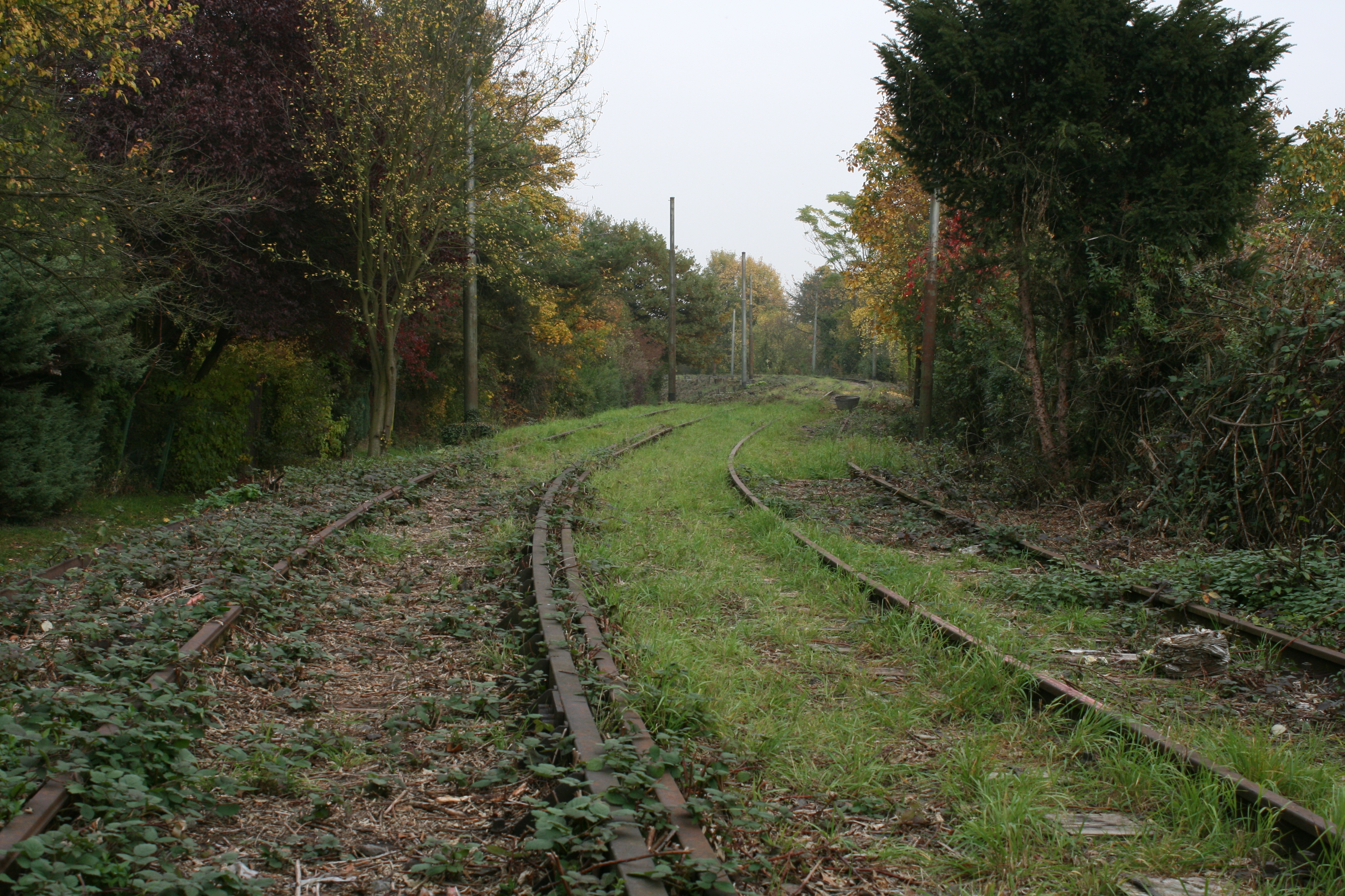 Abandoned tram track to Frankfurt-Bergen out of town short behind the Seckbacher Blitzweg